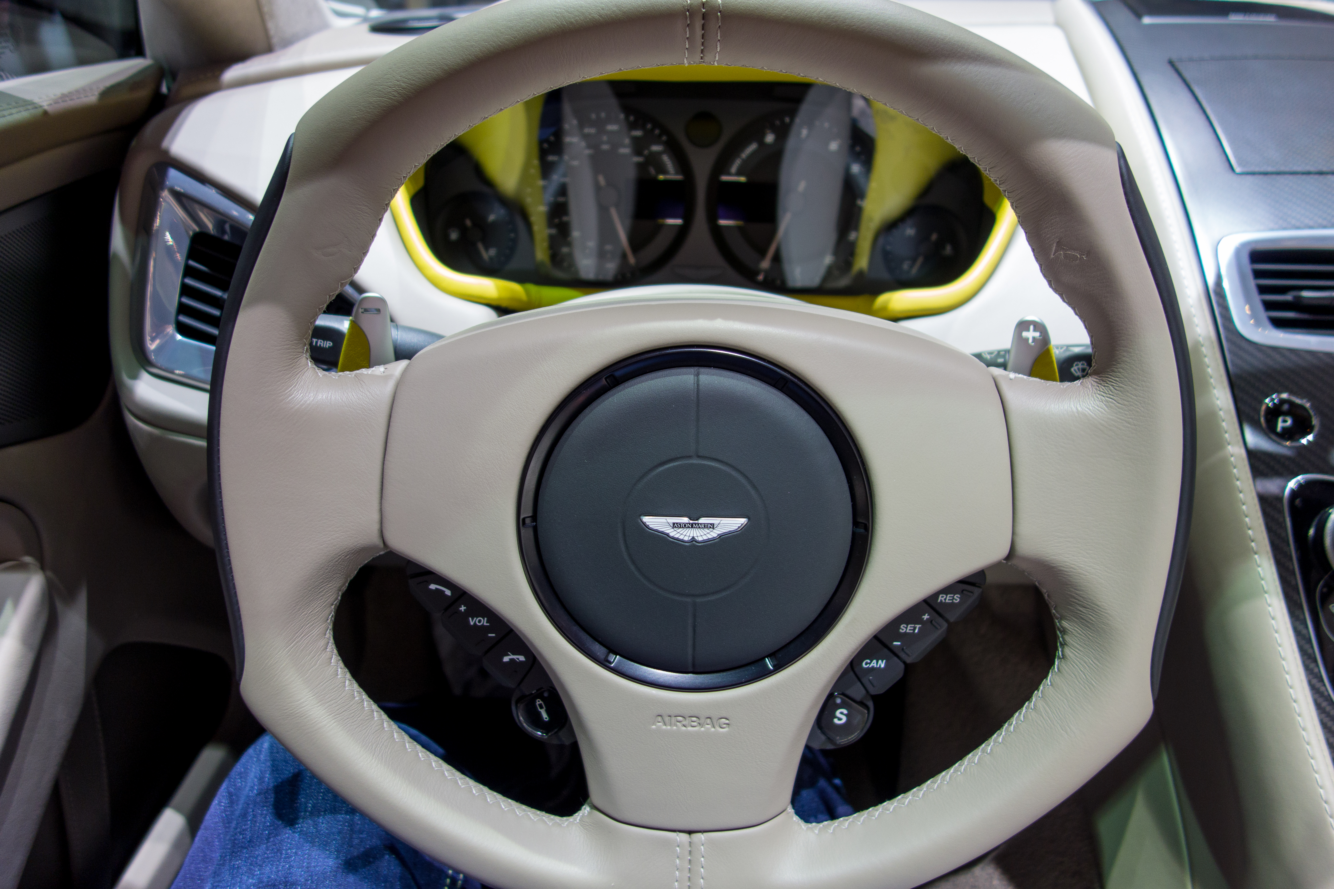 568 BHP Top Speed 201MPH 3.6 Seconds 0-60mph 307000€ en 2015